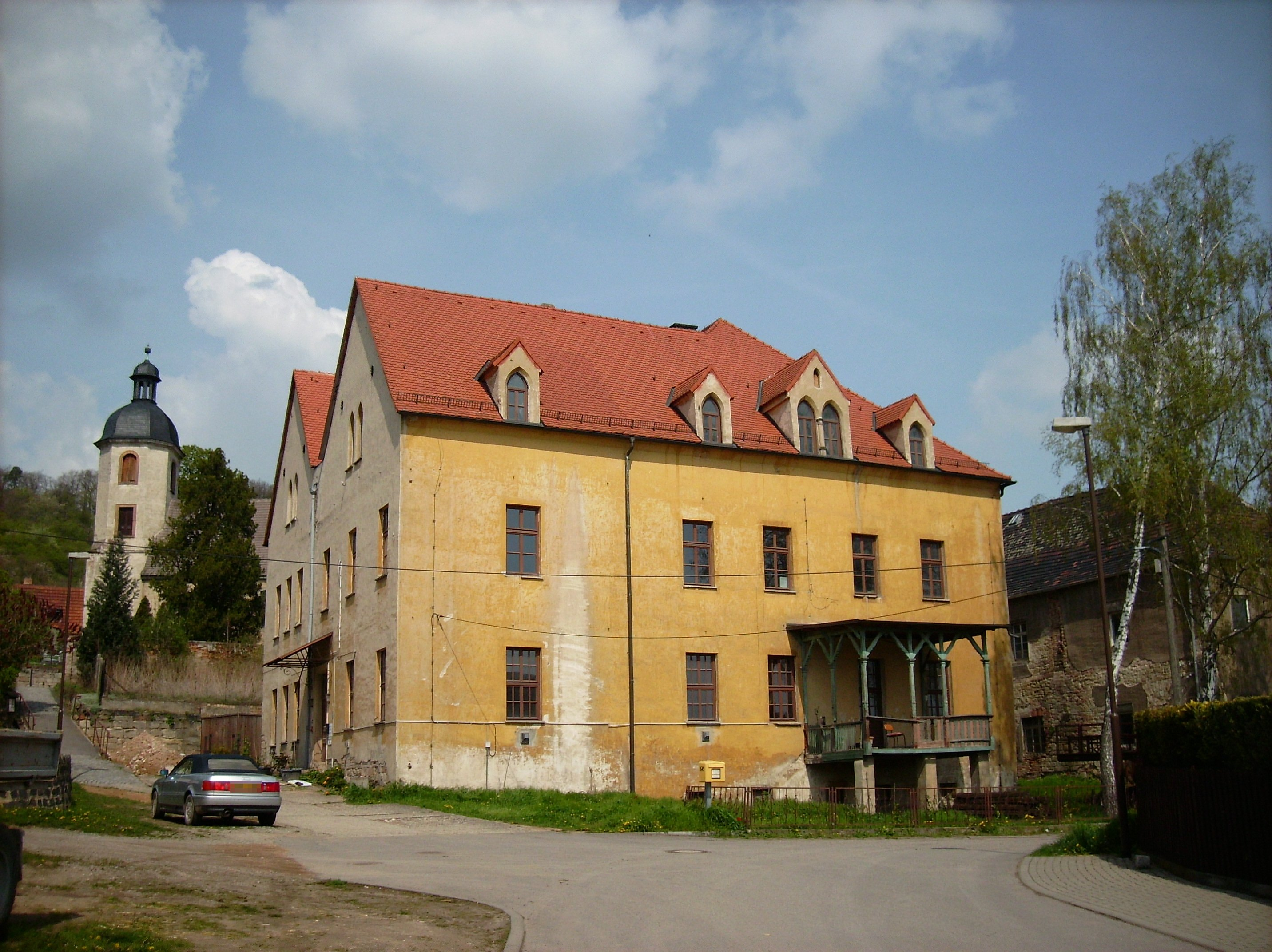 Manor house and church in Eulau (Naumburg/Saale, district of Burgenlandkreis, Saxony-Anhalt)